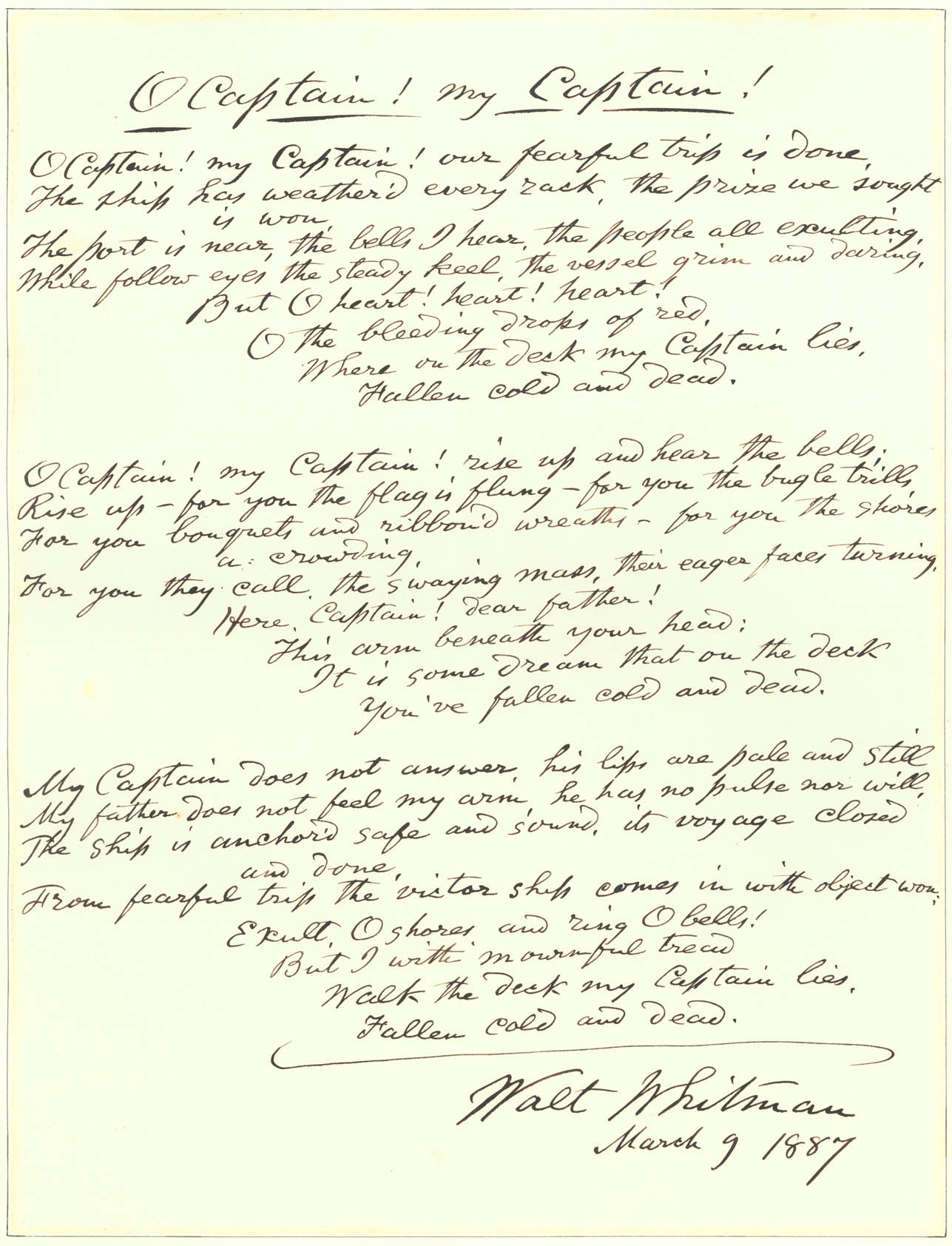 A handwritten draft dated 9 March 1887 of his 1865 poem "O Captain, My Captain!" by American poet Walt Whitman, 1819-1892. This is likely a souvenir draft. This poem, originally published in Sequel to Drum-Taps (1865-66) was included in Whitman's Leaves of Grass, the larger, comprehensive collection of his poetry beginning with its fourth edition in 1867. From: The Walt Whitman Archive. Editors. Ed Folsom and Kenneth M. Price. 18 April 2011 Other information The Walt Whitman Archive releases its materials under Creative Commons Attribution-NonCommercial-ShareAlike 3.0 Unported License, which permits disseminating and alteration. Comprehensive attribution is stated above. This image is a two-dimensional (2D) scan or photograph of the work. As this work is in the public domain (due to its age), and only a two-dimensional representation, it is not eligible for copyright protection, pursuant to Bridgeman Art Library v. Corel Corp., 36 F. Supp. 2d 191 (S.D.N.Y. 1999). This work remains free use and in the public domain.